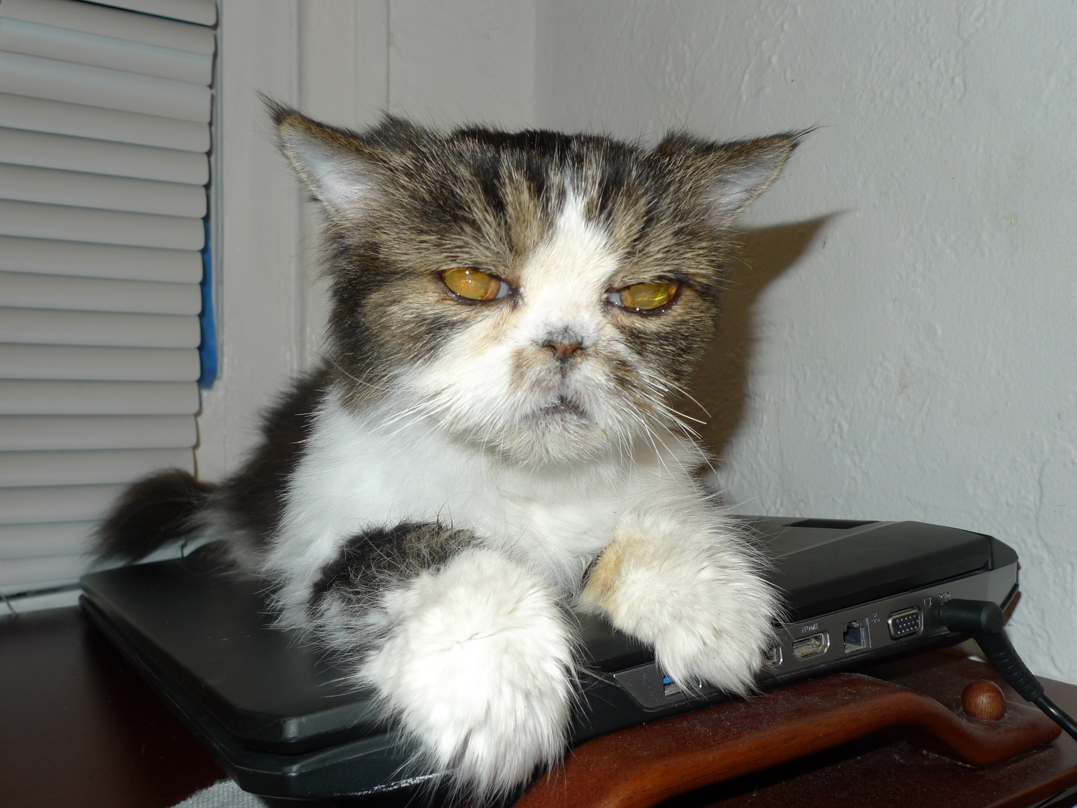 Purr Lexus Persian Kitty January 3 2015 19 years and 6 months old